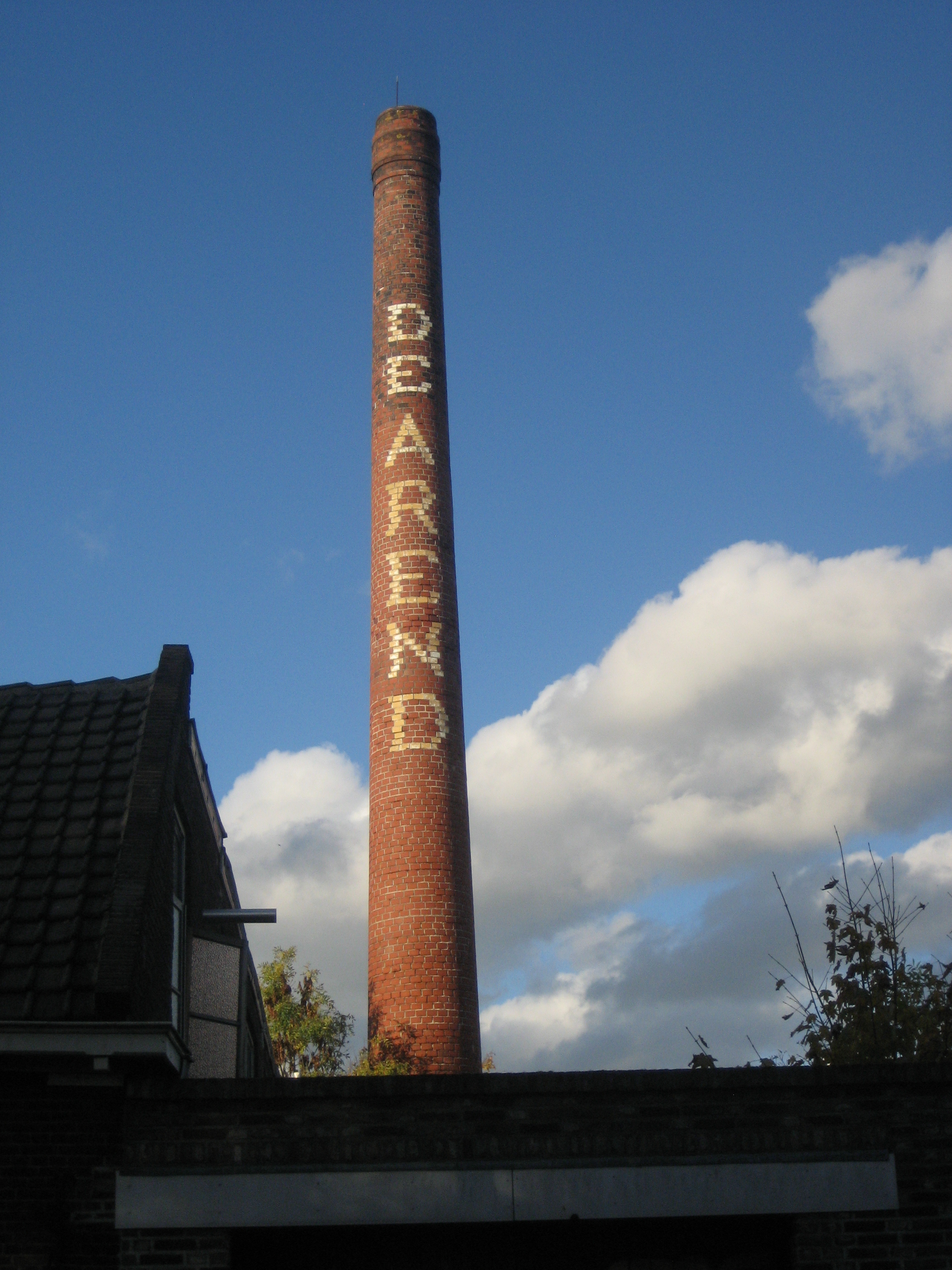 Chimney,dry cleaning factory "De Arend", Herensingel, Leiden (The Netherlands). Built in 1910